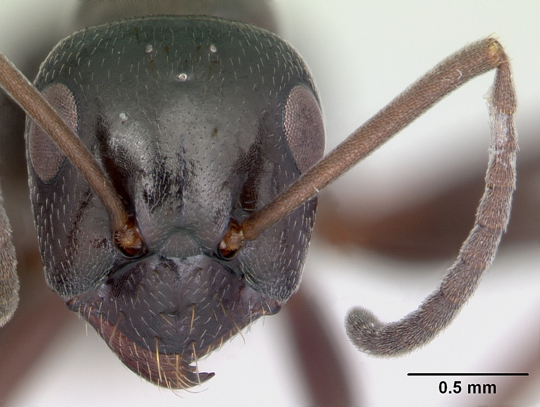 Head view of ant Formica picea specimen casent0173868.